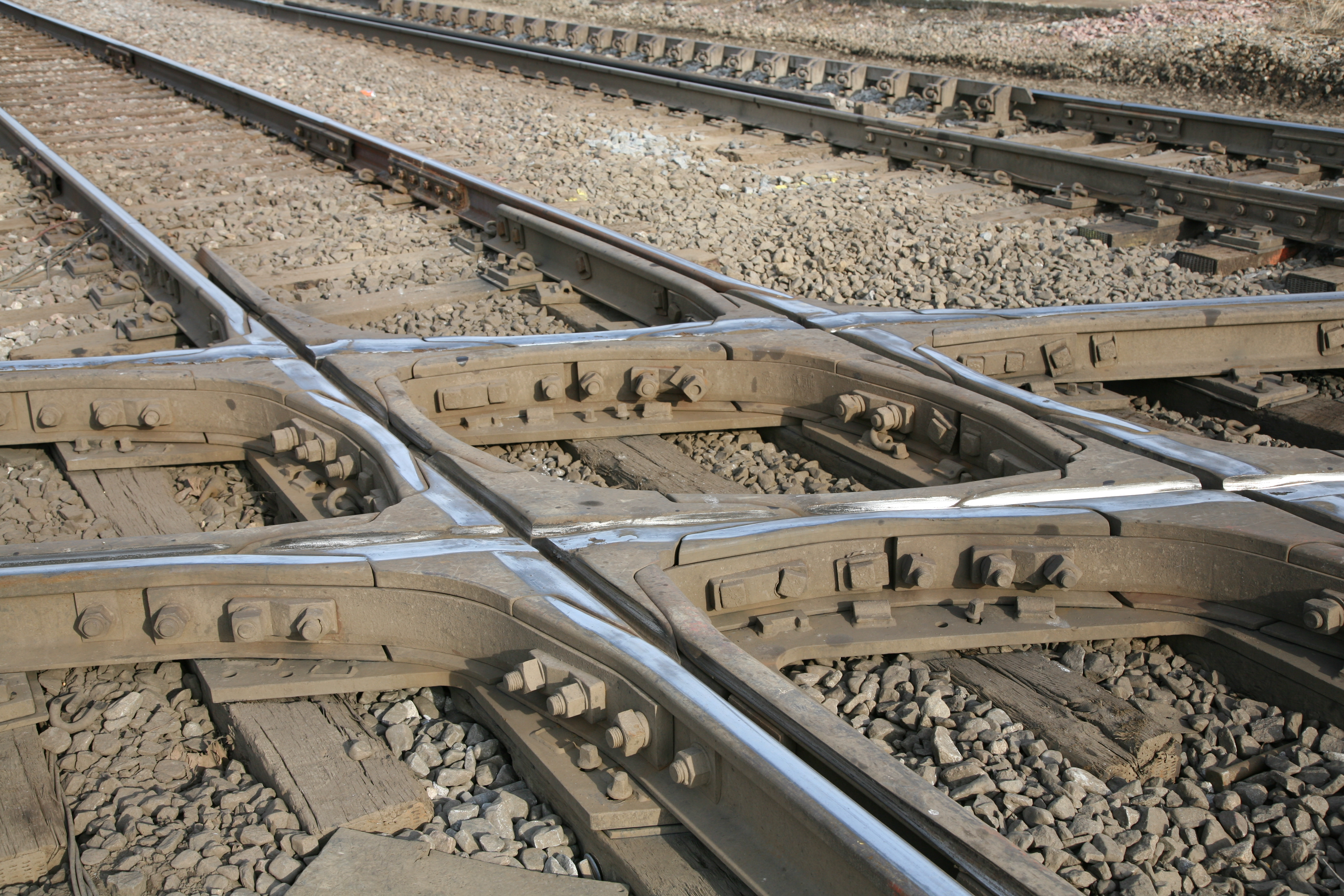 Railroad crossing at grade, Tolono, Illinois